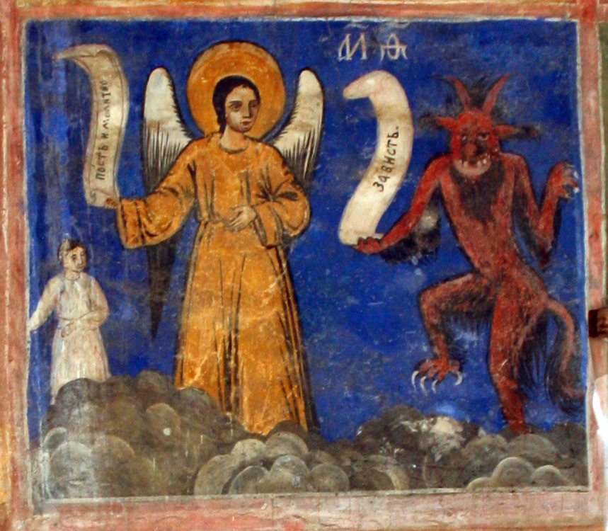 Envy (the Devil om the right), Fasting&Prayer (the Angel in the middle) presented in a Bulgarian 18th century fresko in Chukovets Church, Bulgaria